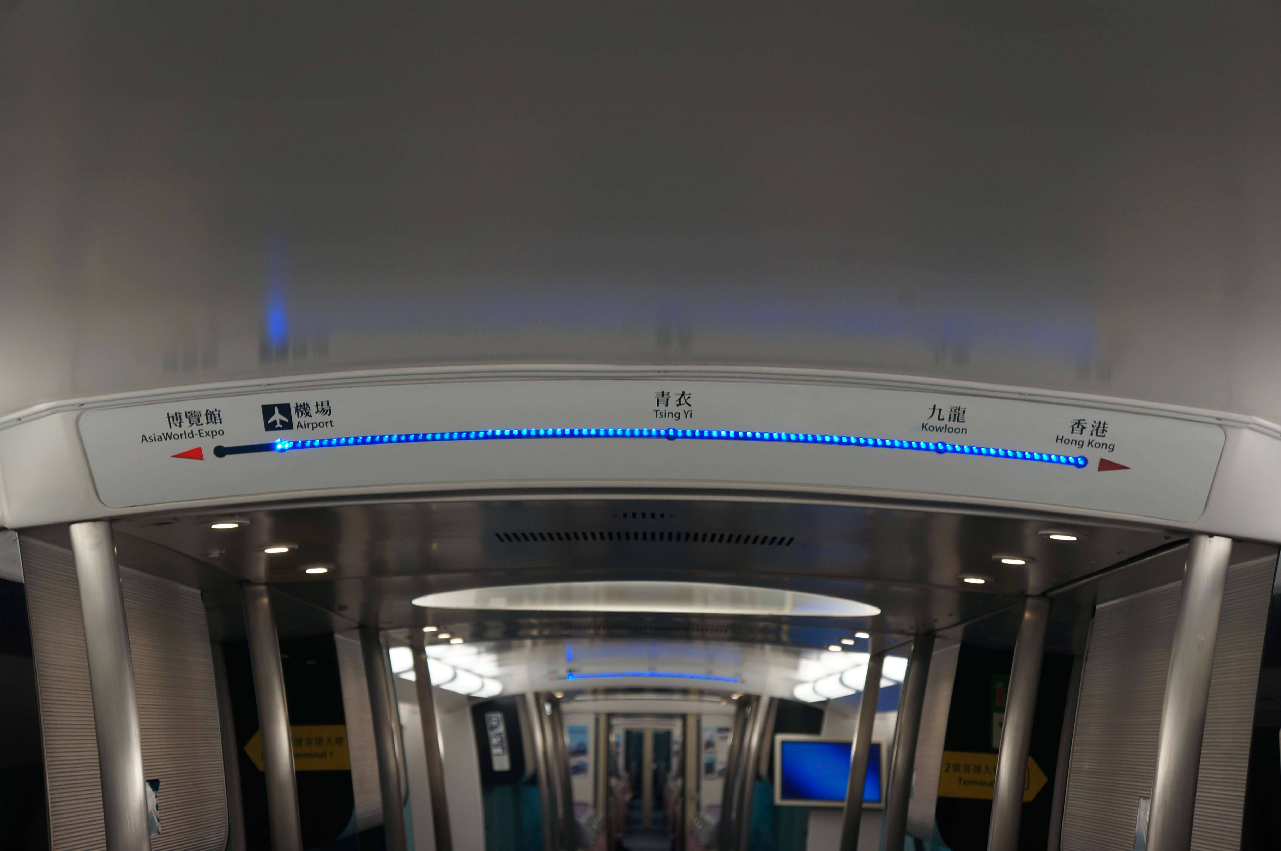 201611 Map of Airport Express inside the A-Stock Compartment